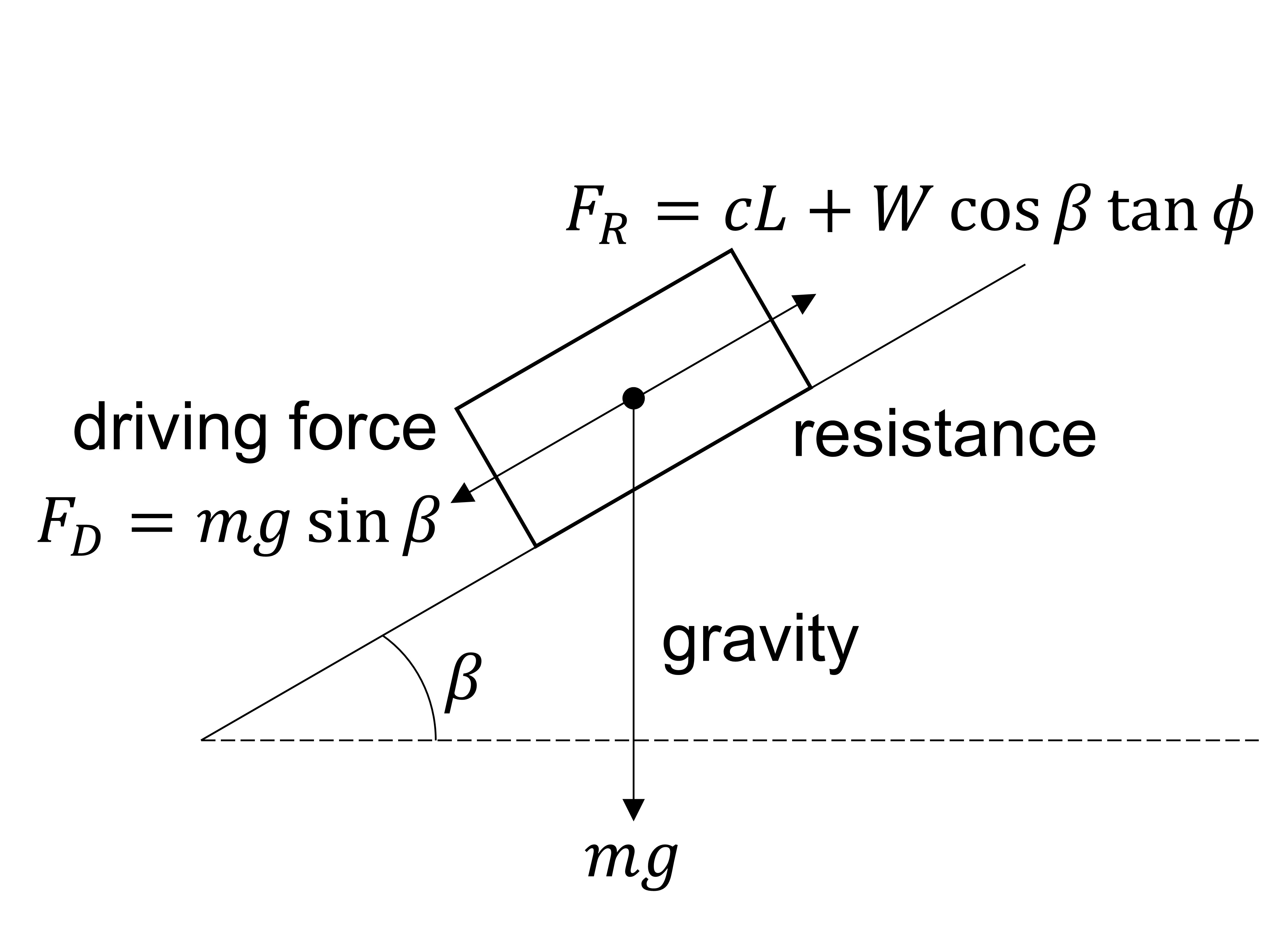 mechanics of mass movement. It shows gravity for geomorphological material, driving force and resistance affect mass movement.